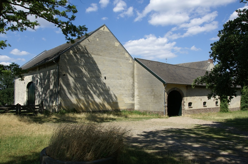 National monument no. 27993 - Zonnebergweg 10, Maastricht, The Netherlands.